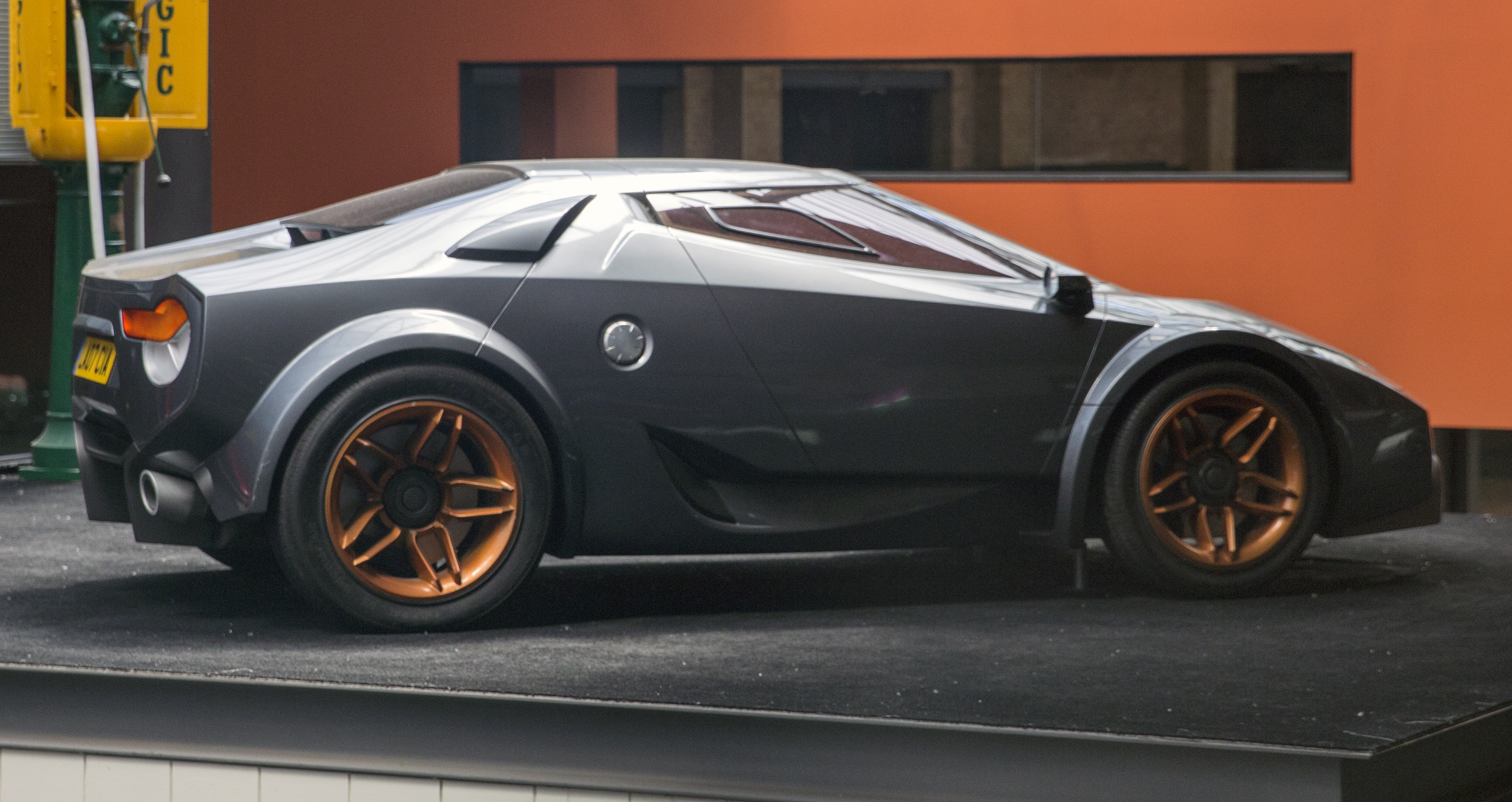 Fenomenon Stratos show car (just a mock-up, I believe) at Berlin's Classic Remise. It's been repainted a couple of times!